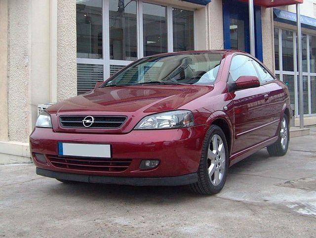 Opel Astra G